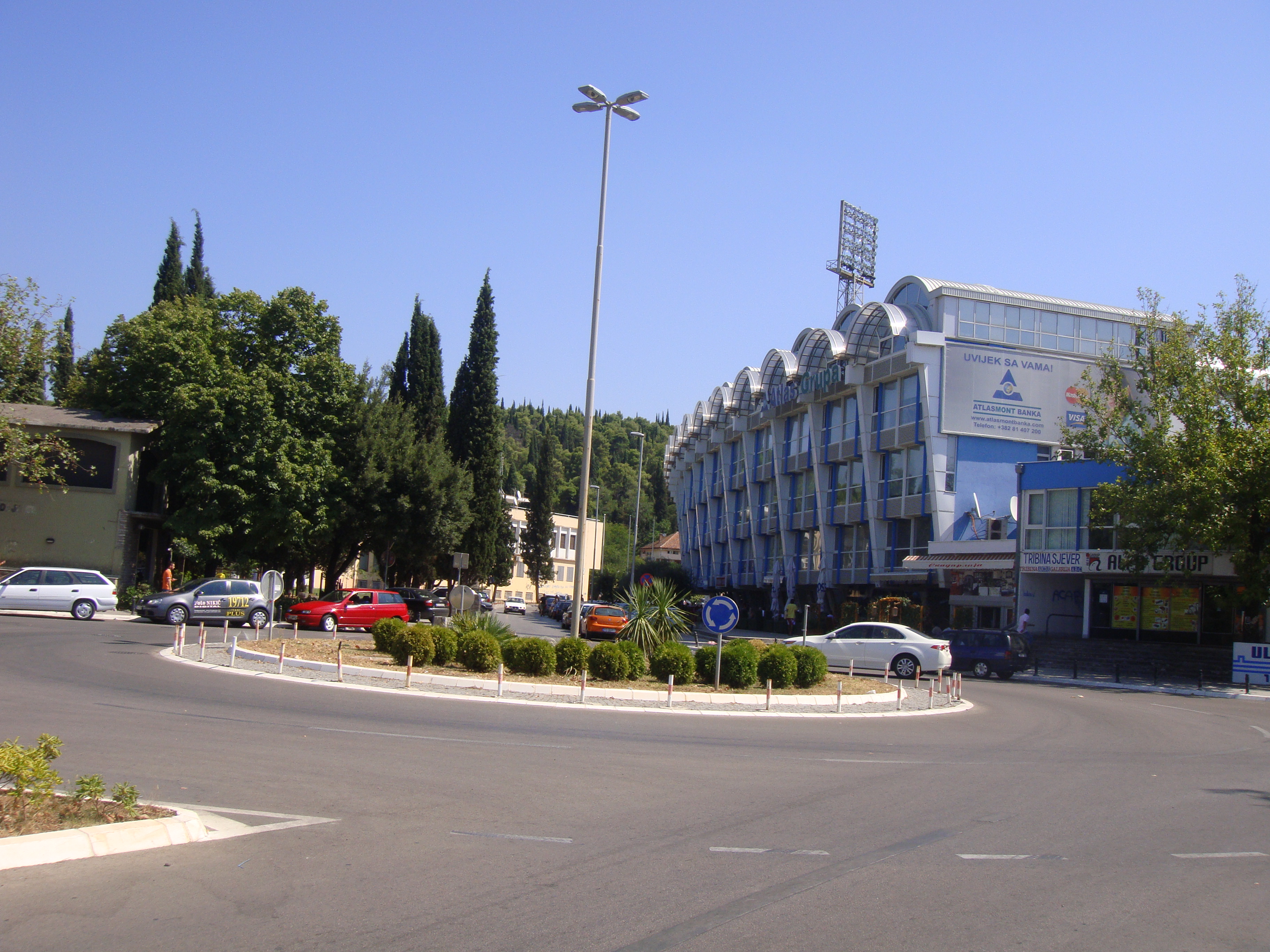 Downtown, Podgorica, Montenegro